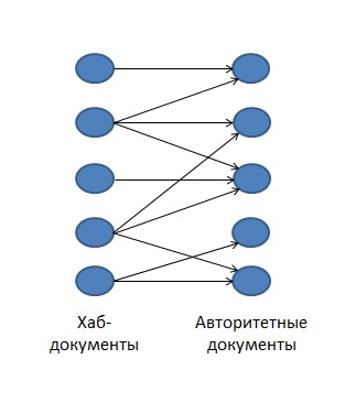 A densely linked set of hubs and authorities